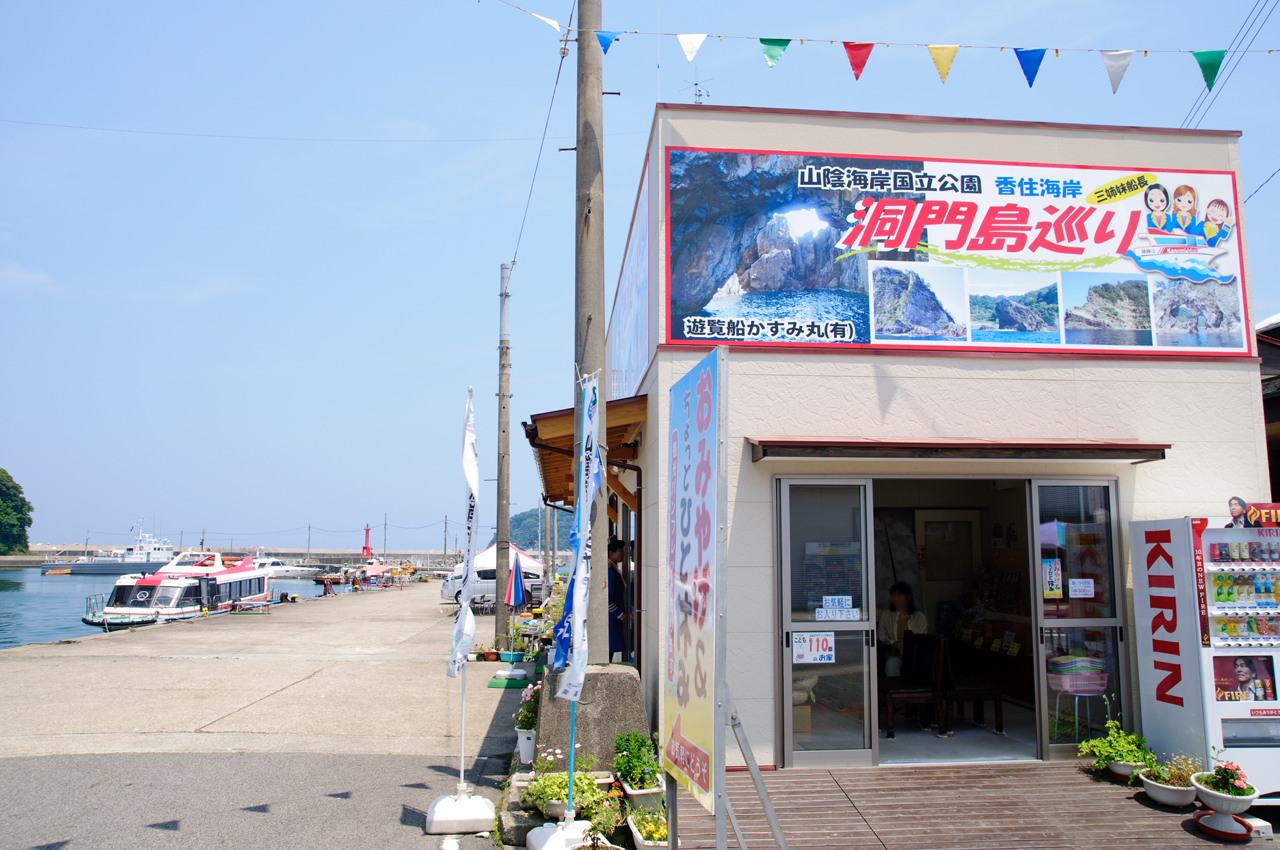 Kasumi maru in Kami ,Hyogo Prefecture,Japan.